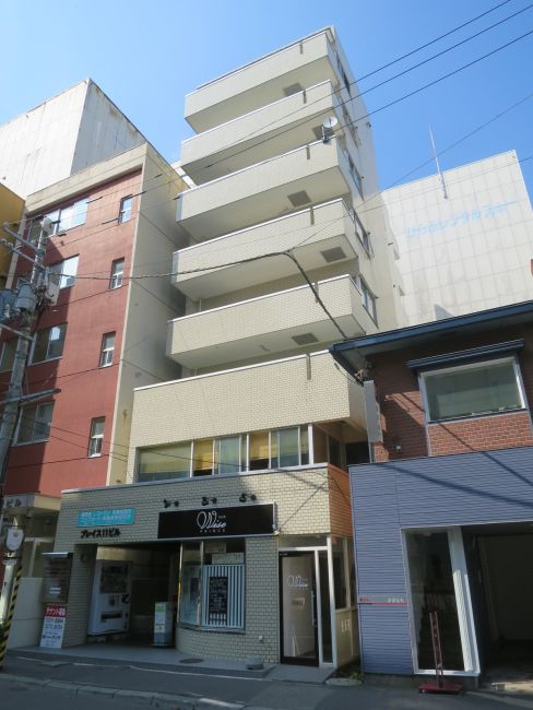 ライブプロ本社・レコーディングスタジオ（中央ビル）／ライブプロホールＺ（左ビル）